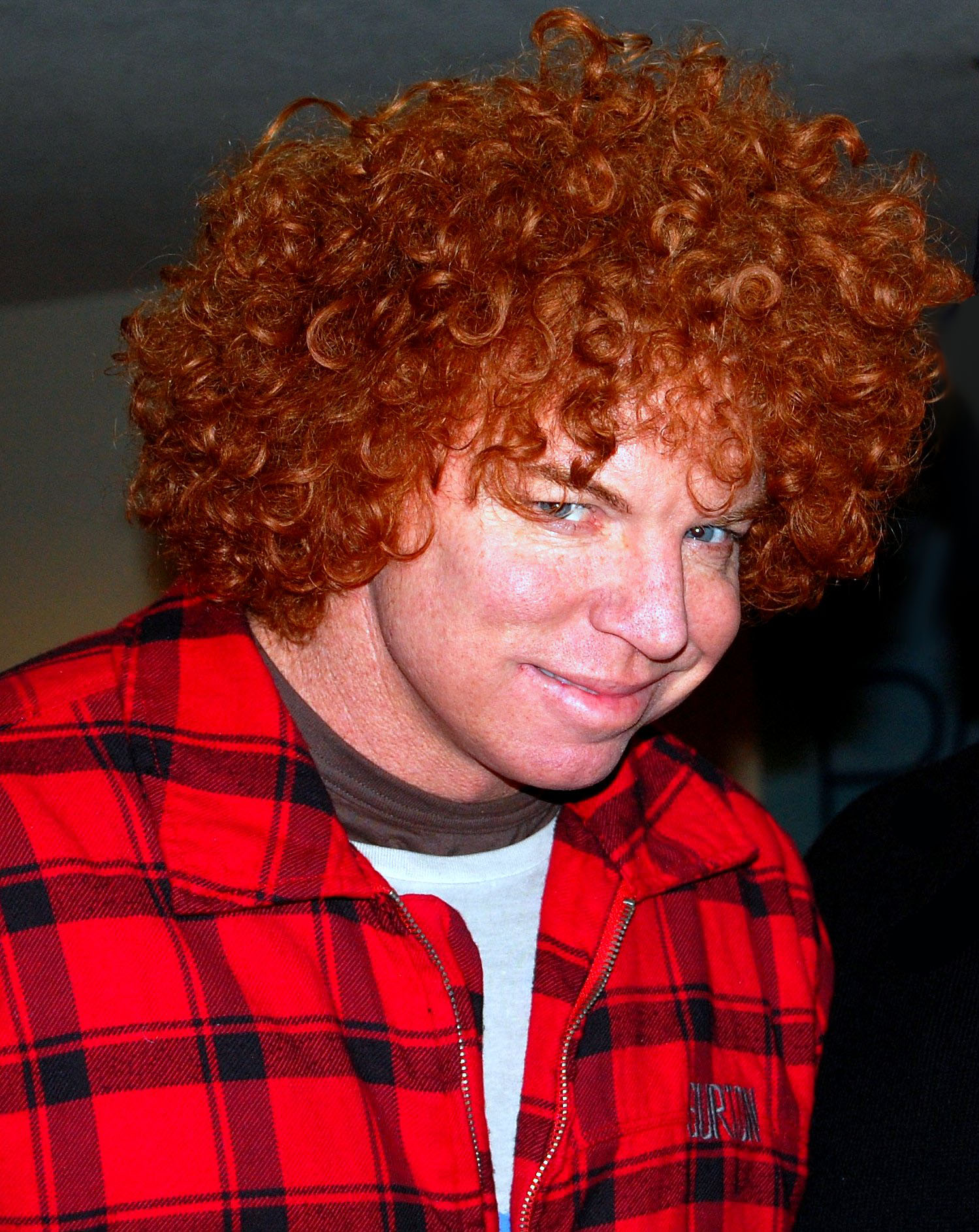 Carrot Top, a.k.a. Scott Thompson in a photo taken January 10, 2009.